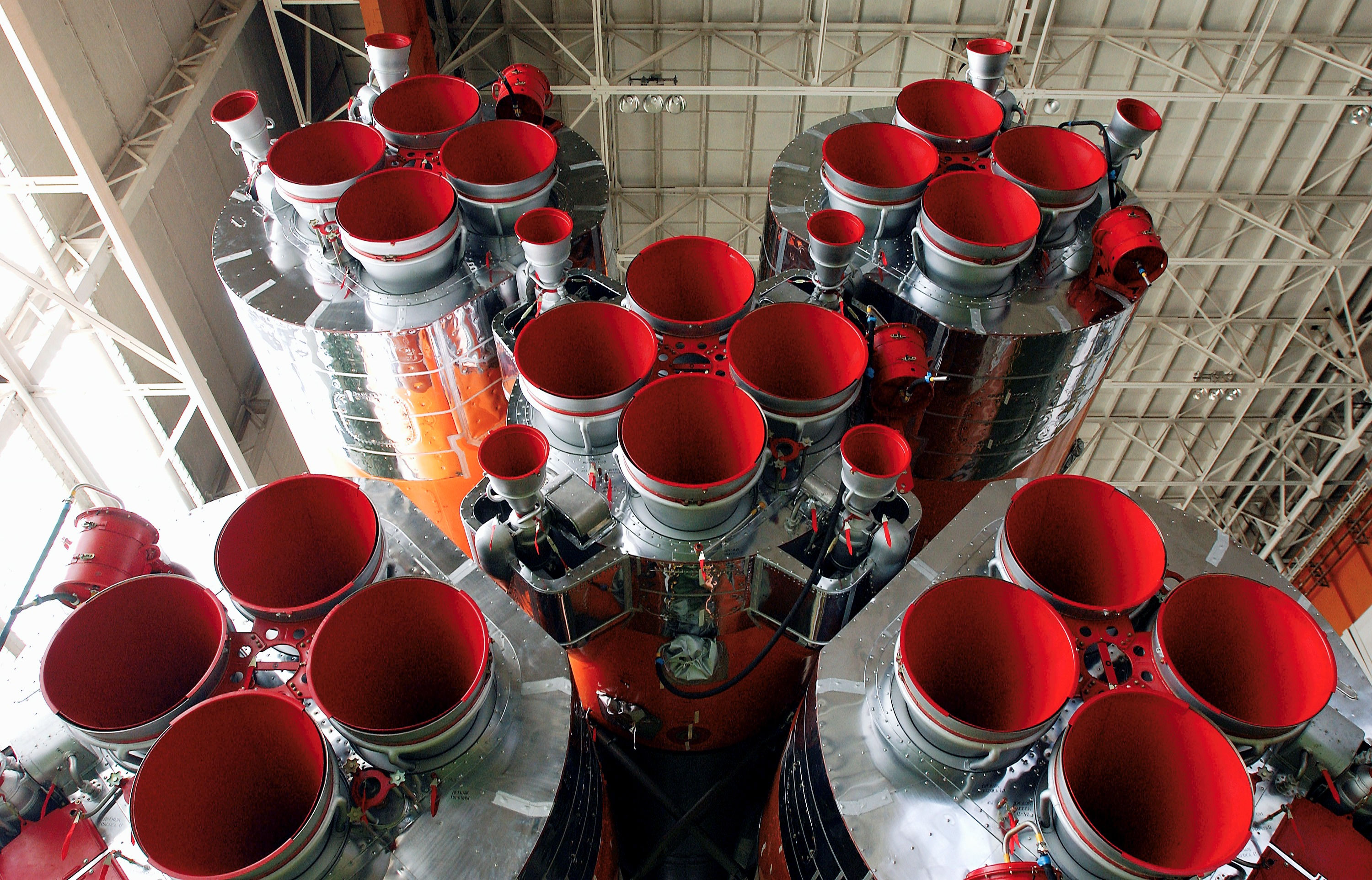 The Soyuz TMA-5 spacecraft is mated to its booster rocket in a processing hangar at the Baikonur Cosmodrome in Kazakhstan October 11, 2004, in preparation for its rollout to the launch pad October 12 and its liftoff October 14 to carry astronaut Leroy Chiao, Expedition 10 commander and NASA International Space Station (ISS) science officer; cosmonaut Salizhan S. Sharipov, Russia’s Federal Space Agency Expedition 10 flight engineer and Soyuz commander; and Russian Space Forces cosmonaut Yuri Shargin to the ISS. Building 112, Baikonur Cosmodrome, Kazakhstan.